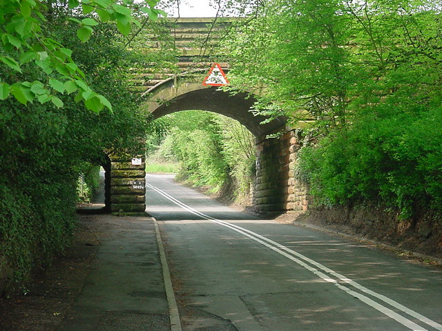 Finstall - Railway Bridge over Alcester Road